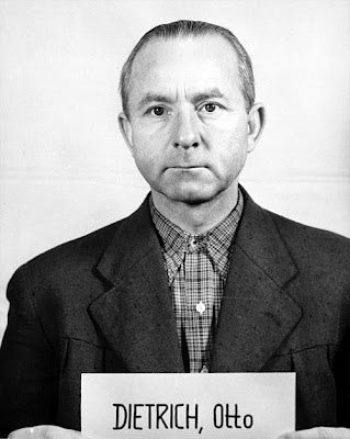 Nuernberg, Germany, Defendant SS-Obergruppenführer Otto Dietrich in the Nuernberg trials